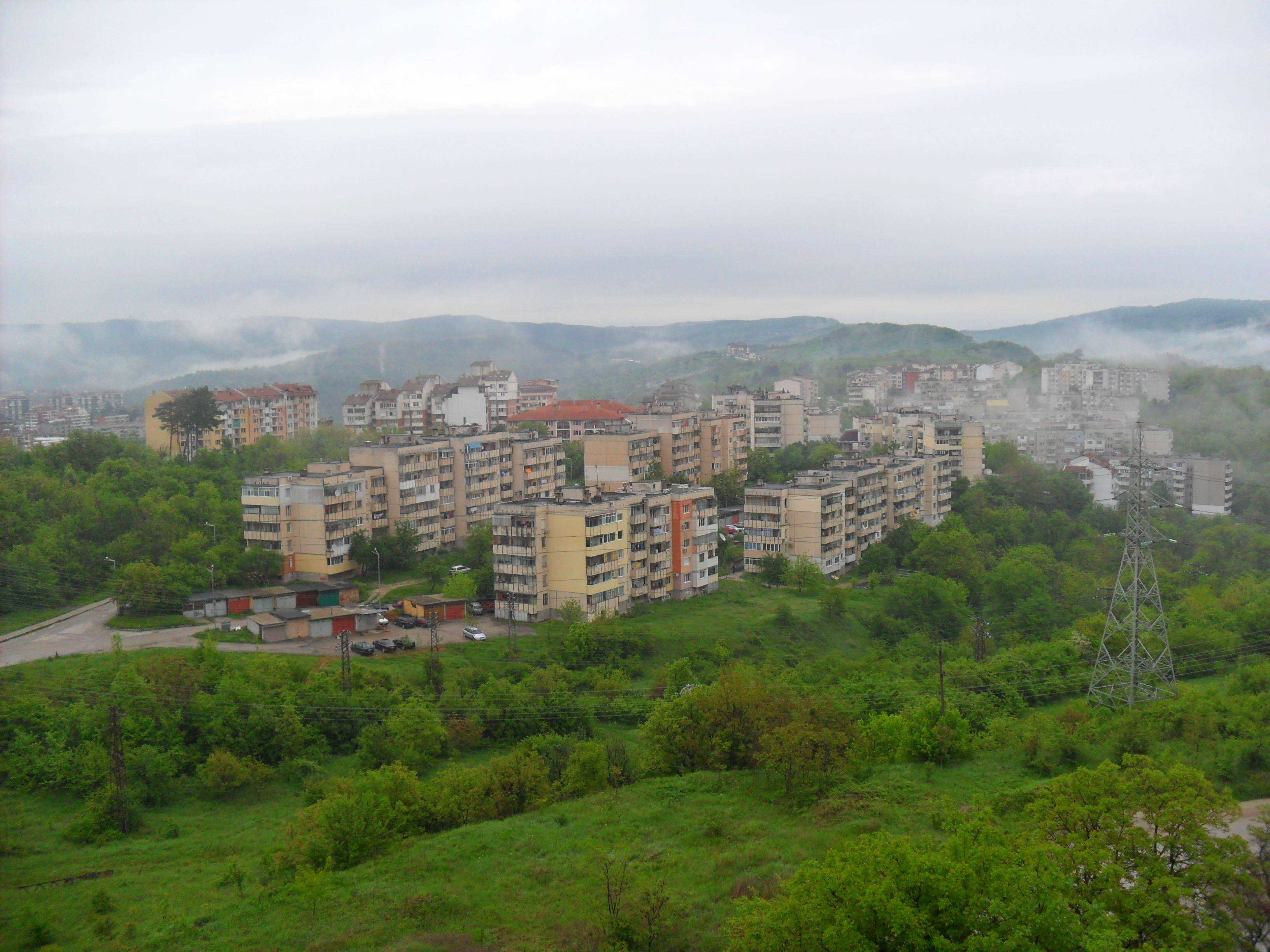 Picture of Veliko Tarnovo`s neighborhood Zone B